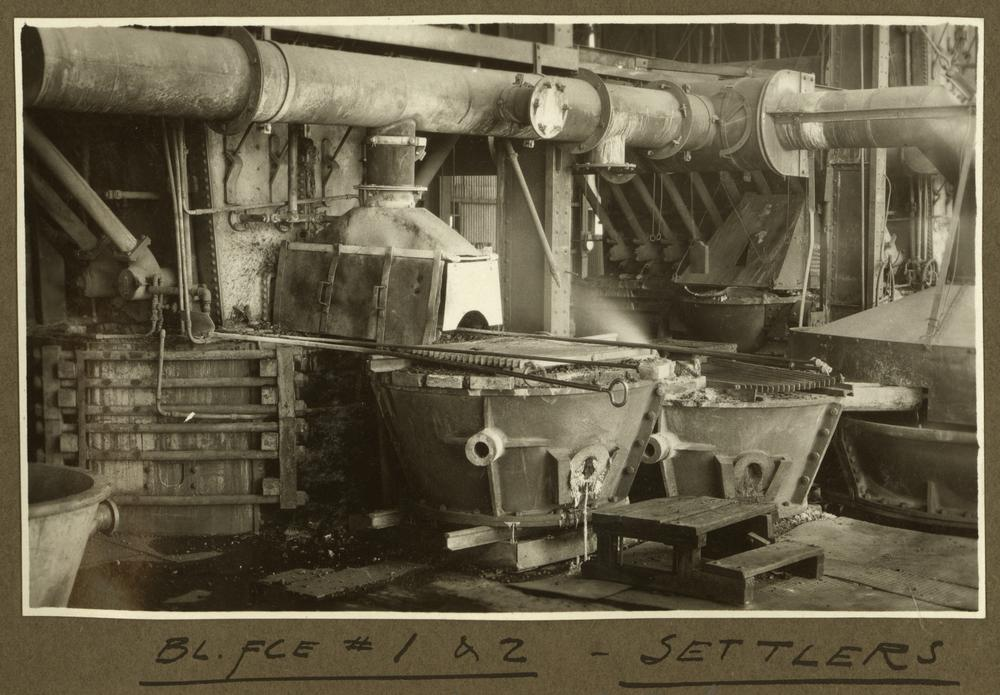 Blast furnaces n°1 & 2: interior view of part of the smelter at Mt. Isa Mines, 1932